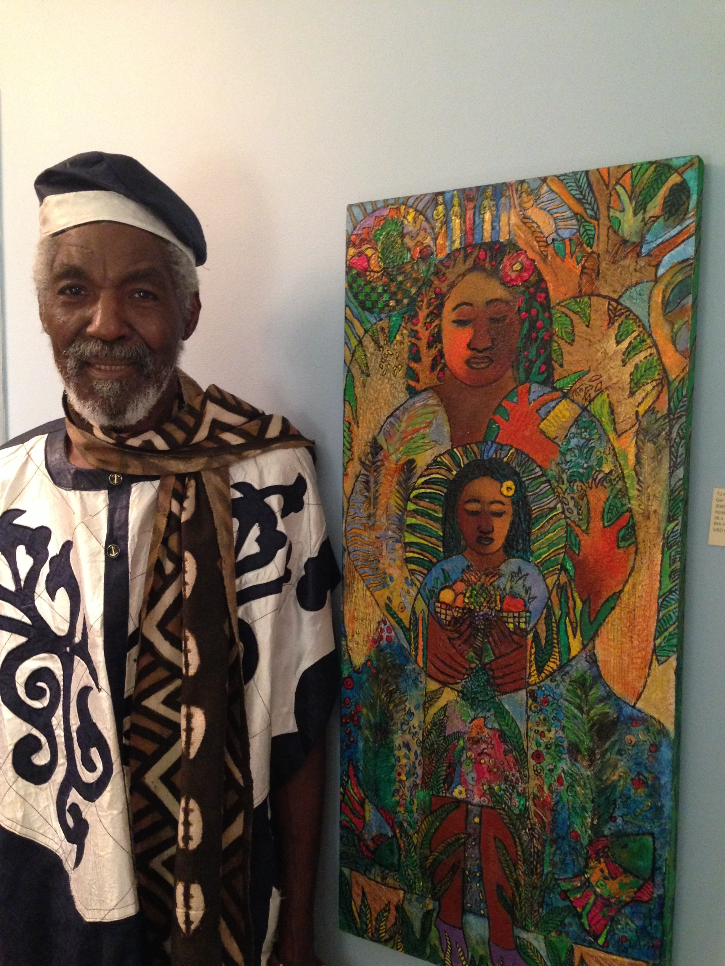 Artist Thomas James (TJ) Reddy at event April 22, 2017 in Charlotte, North Carolina.